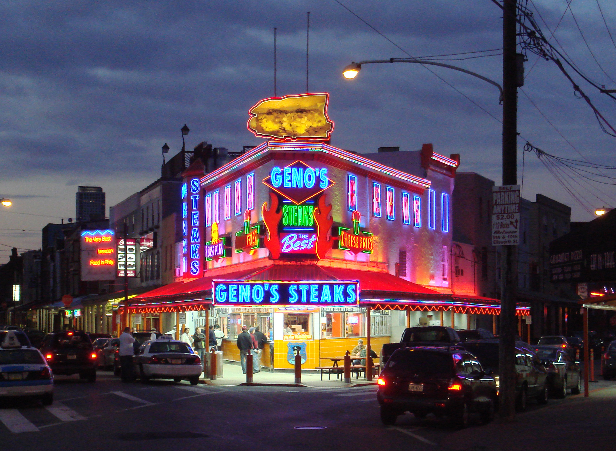 Geno's Steaks at dusk, Philadelphia, Pennsylvania.